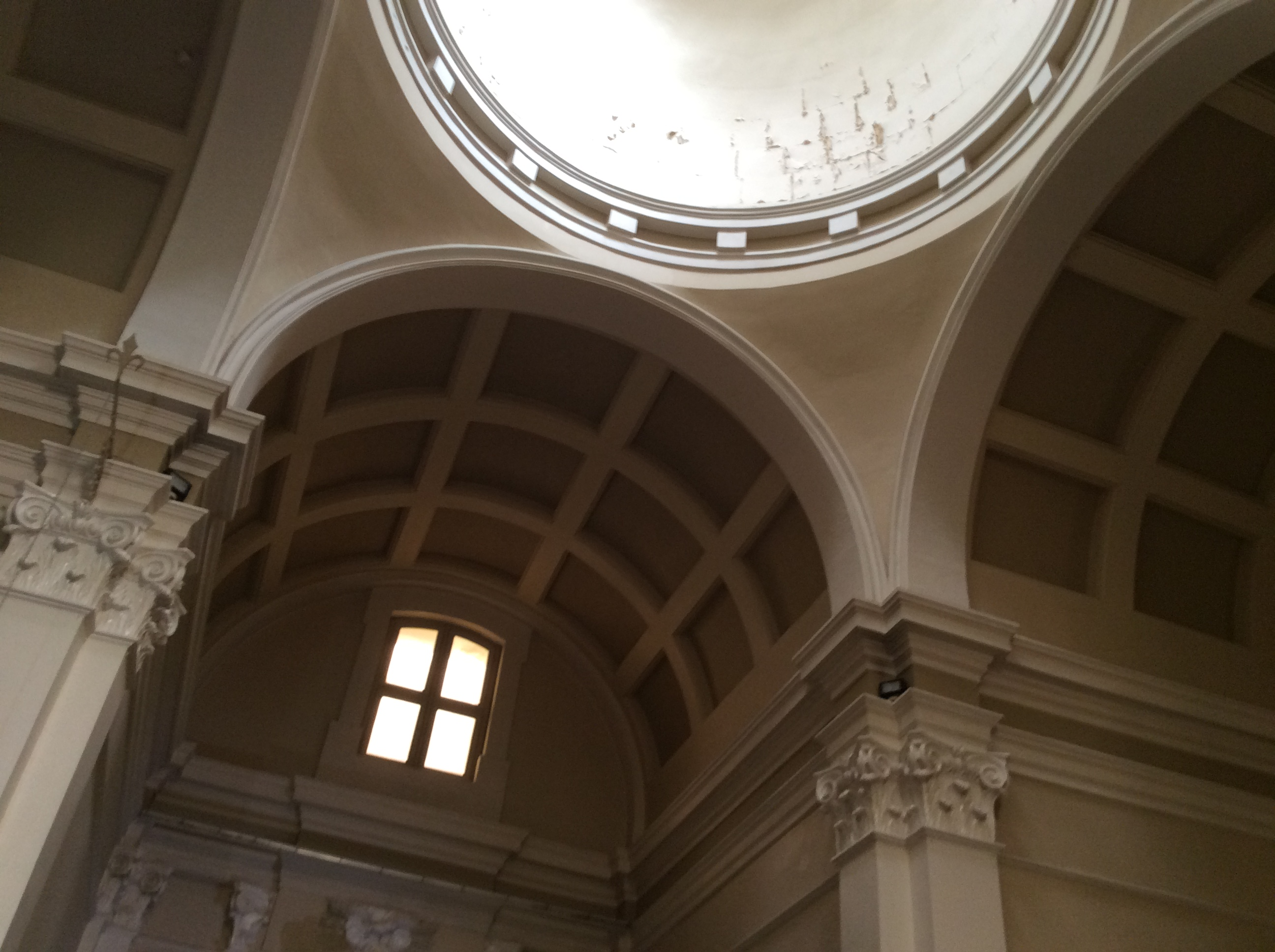 Chapel of the Holy Spirit, Żejtun